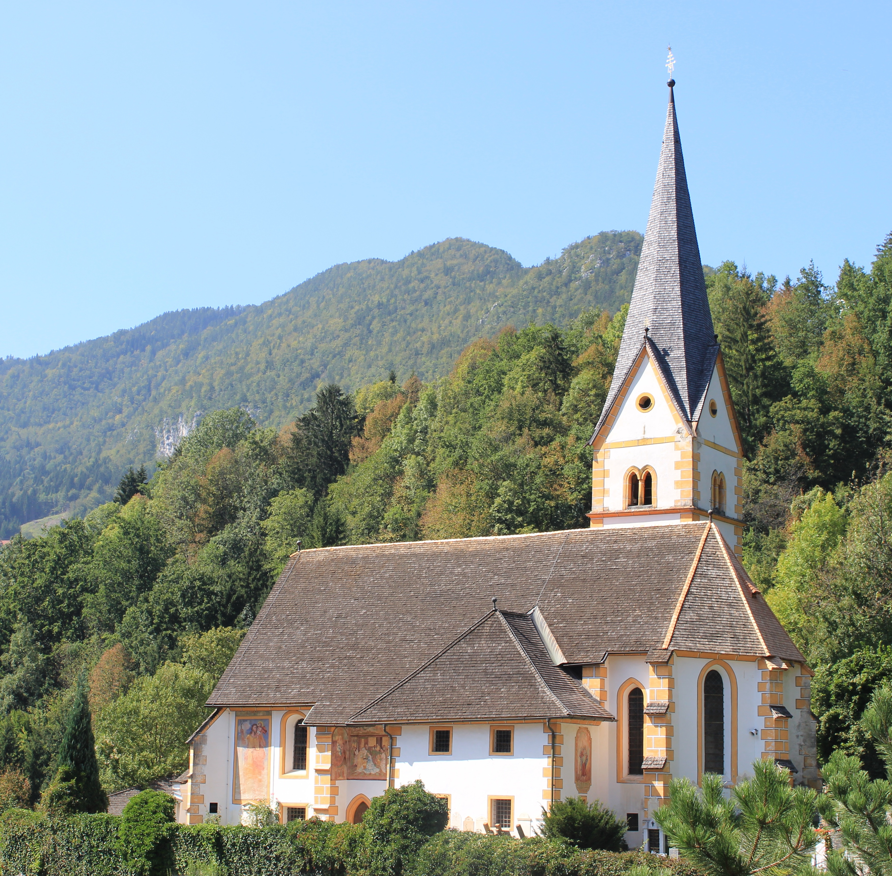 Maria-Dorn-church in Eisenkappel-Vellach